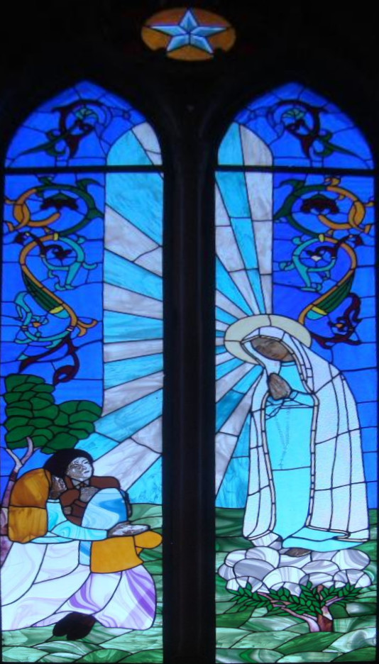 Our Lady of Fatima Church, Zacatecas city, Zacatecas state, Mexico